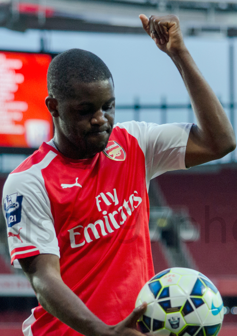 Arsenal player Joel Campbell